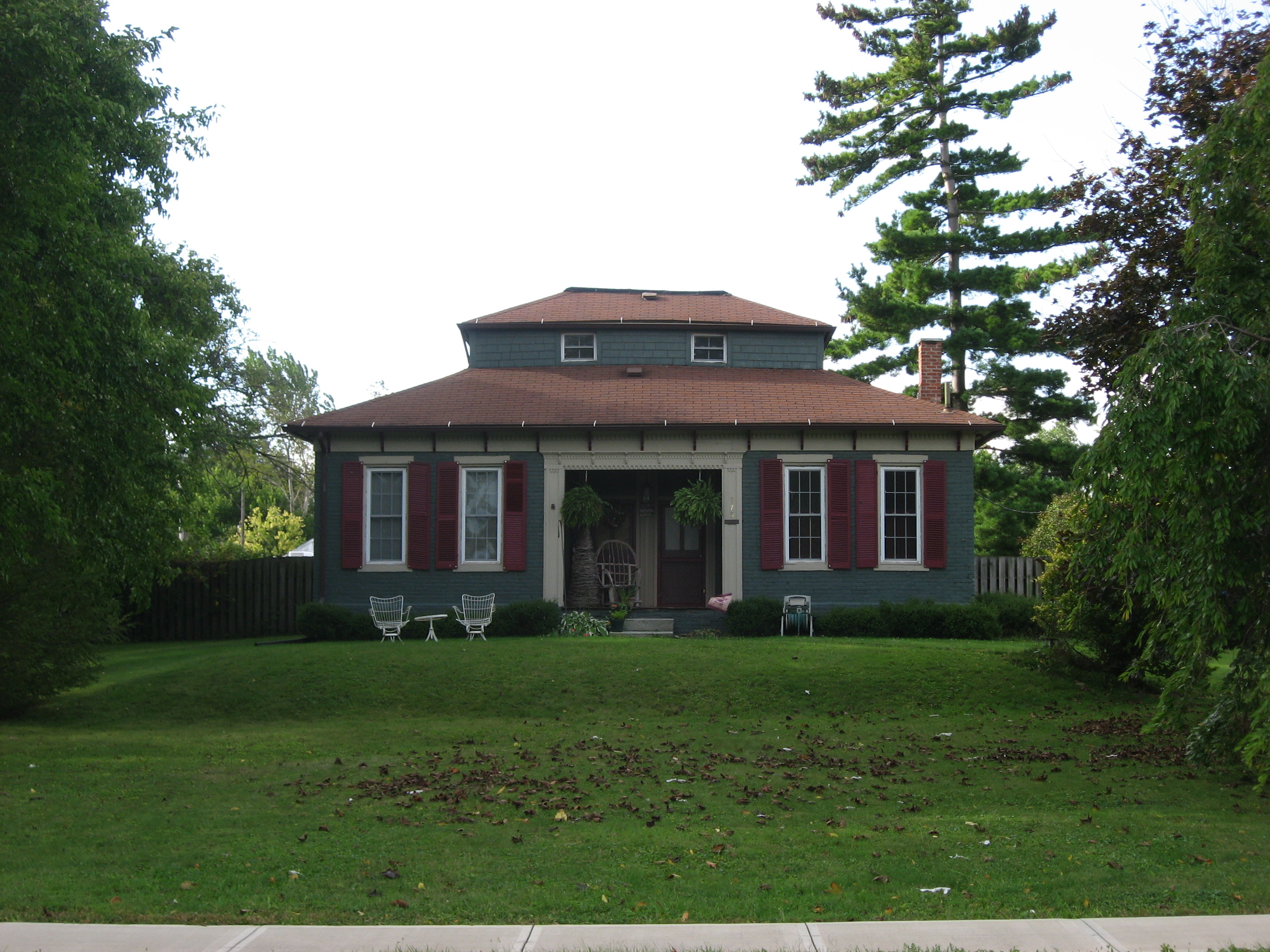 Front of the Monitor House, located at 375 W. Main Street (U.S. Route 36) in western St. Paris, Ohio, United States. Built in 1860, it is listed on the National Register of Historic Places.